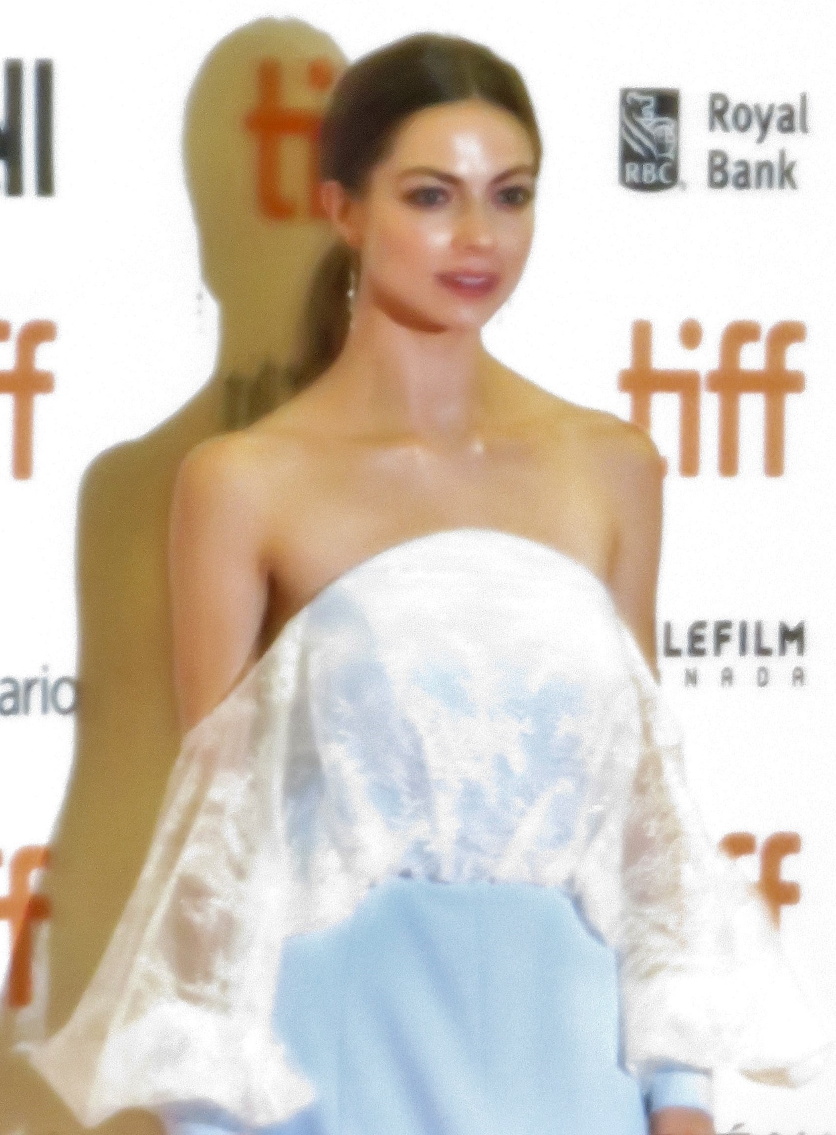 Caitlin Carver at the premiere of I Tonya, 2017 Toronto Film Festival